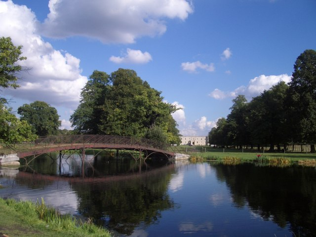 Syon: the bridge over the lake with Syon House in the distance